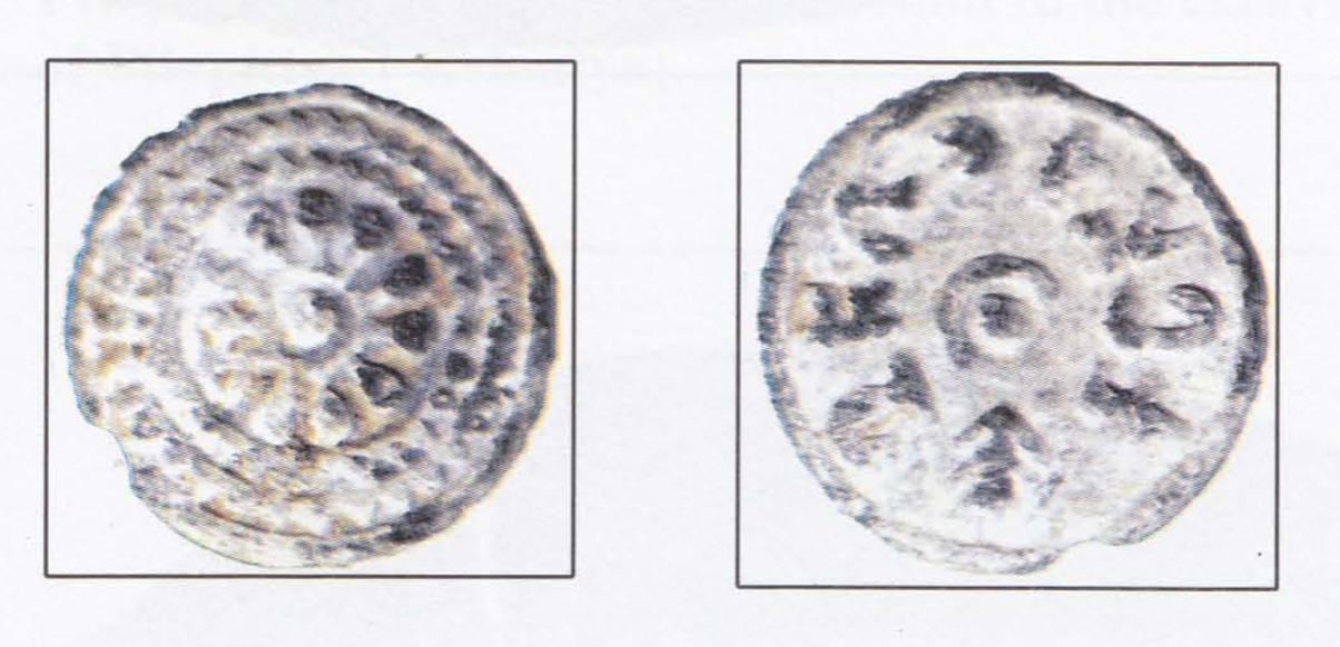 Kapati Katalan